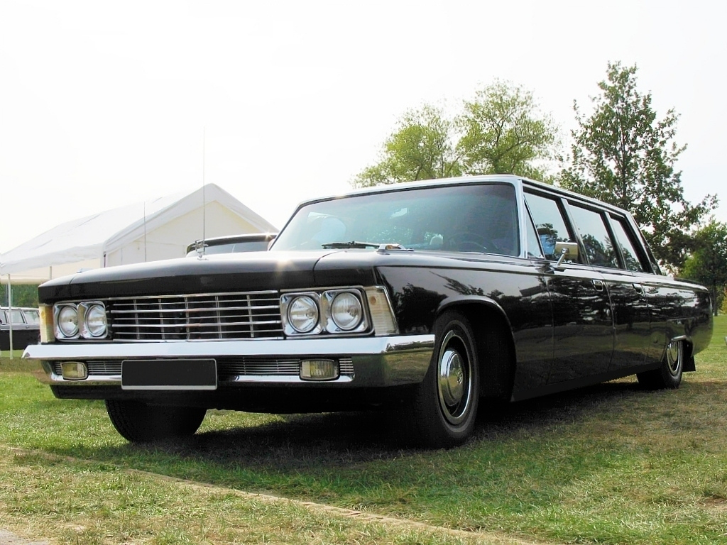 Length: 20 feet 7 inches; Weight: 6800 lbs. Engine: 425 cubic inches, 300hp[SAE Gross]